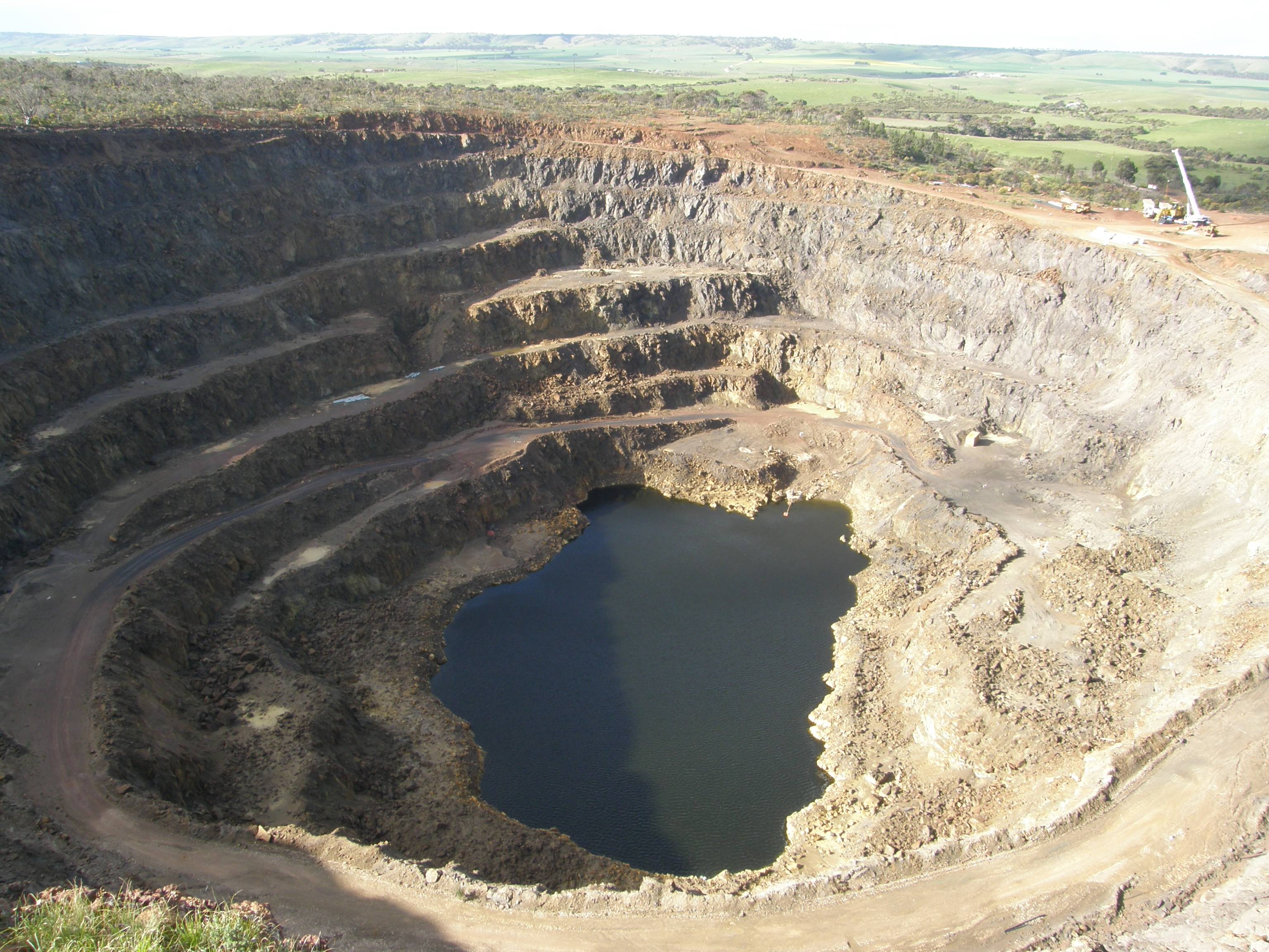 Open pit of the Kanmantoo Copper Mine in 2010